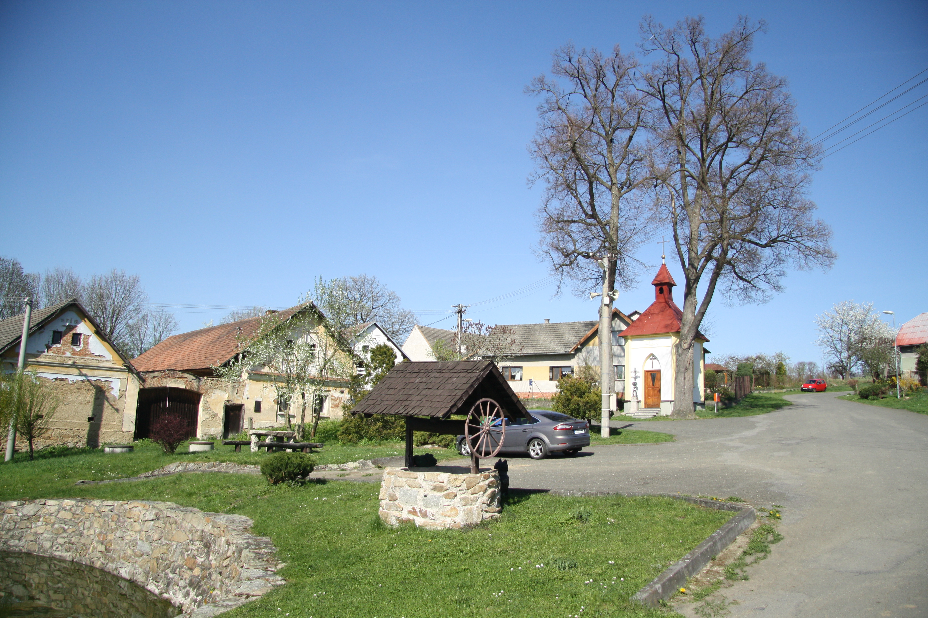 Center of Lísky, Koberovice, Pelhřimov District.